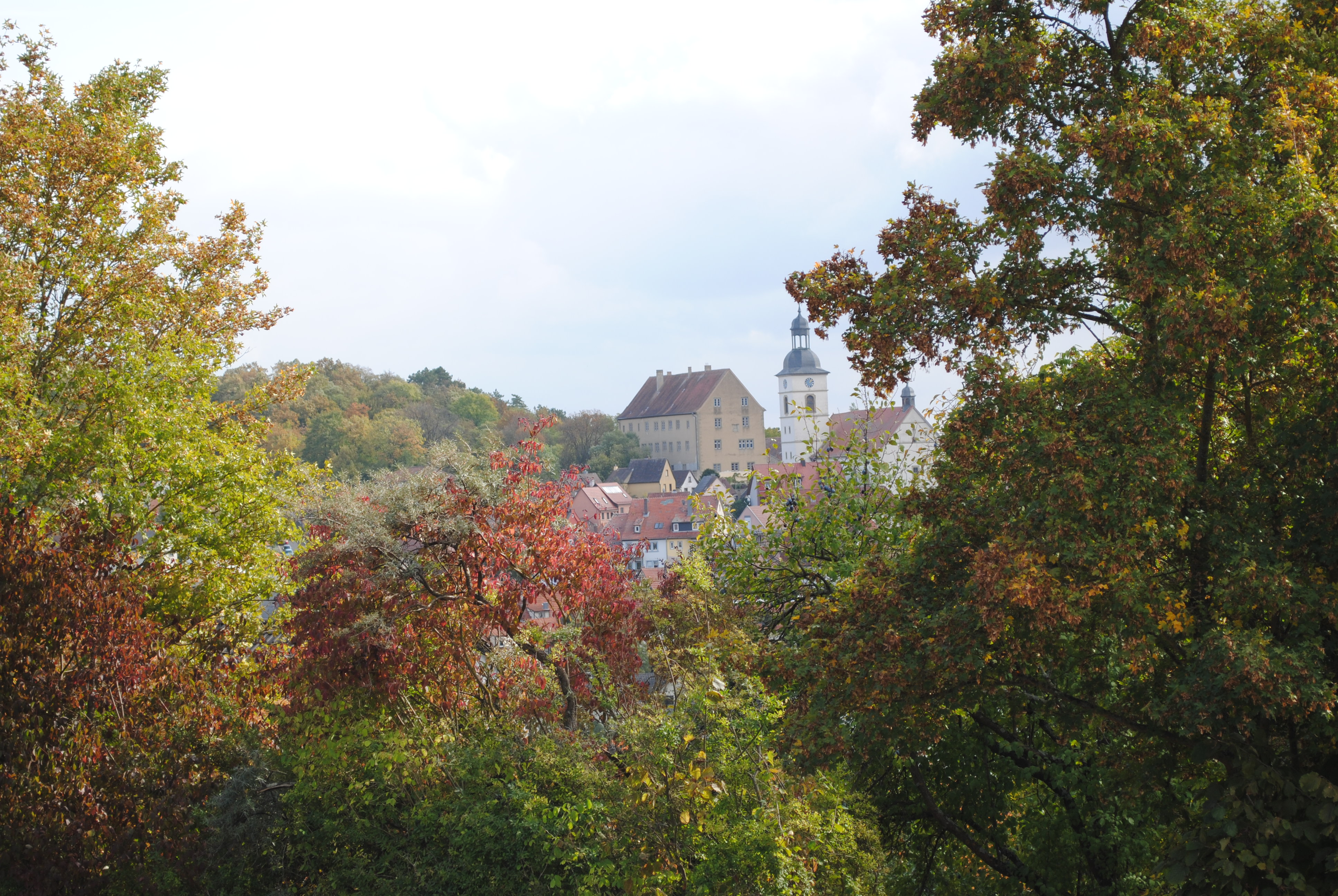 Nord-West Seite der Burg Arnstein (Main-Spessart)